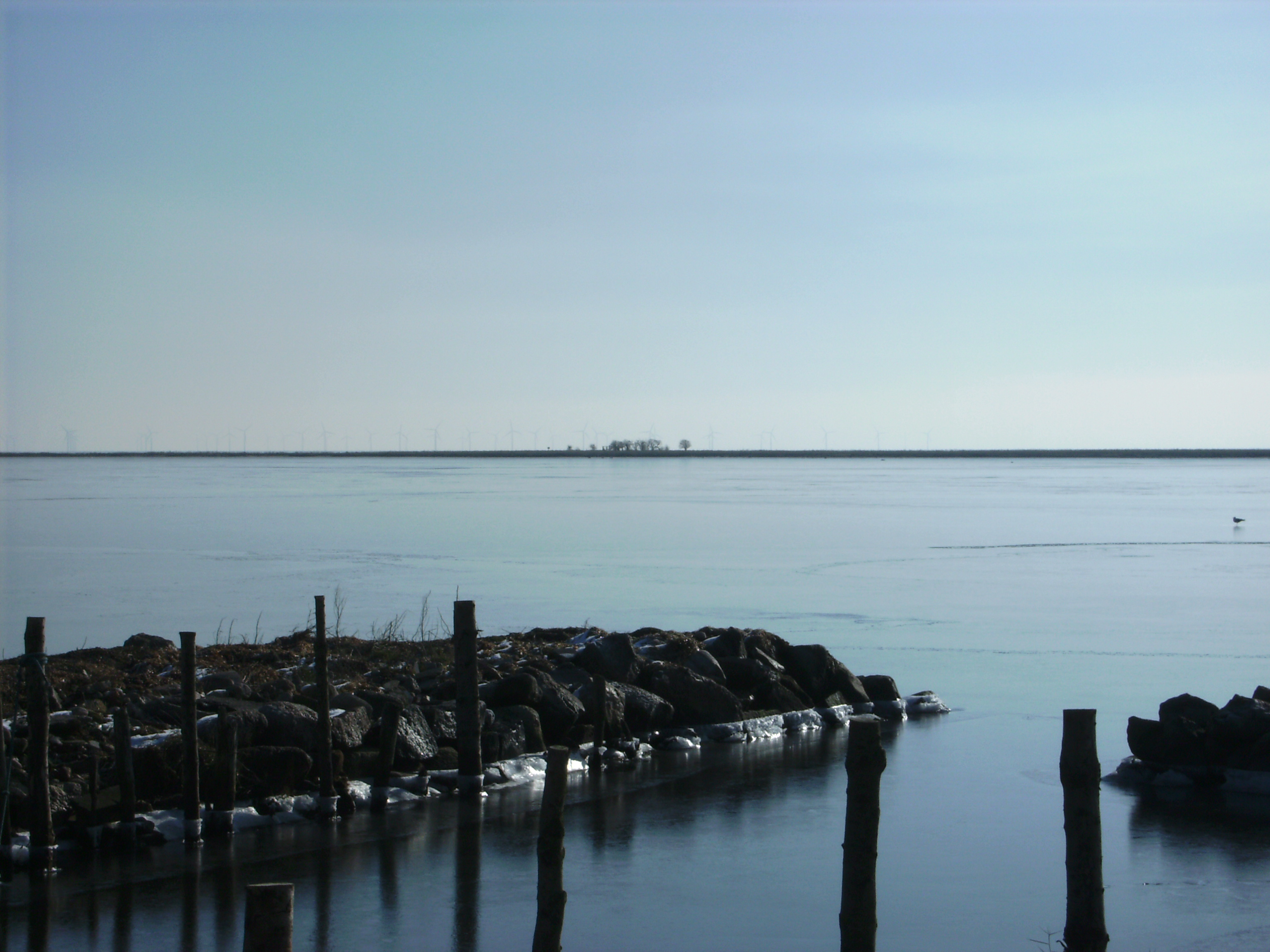 A small harbour on the south coast of Lolland